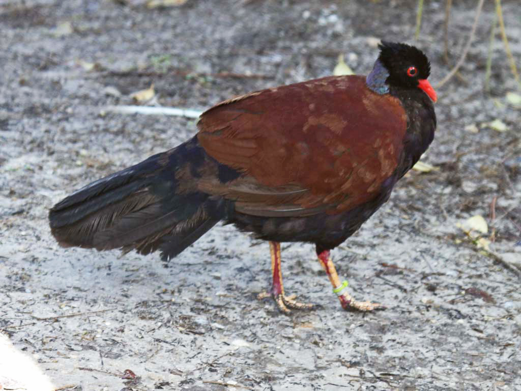 A Noble Pheasant Pigeon (Otidiphaps nobilis) - Tampa's Lowry Park Zoo, Tampa, Florida.